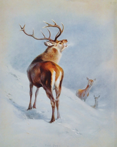 "Red Deer" illustration from "British Mammals" by A. Thorburn, 1920